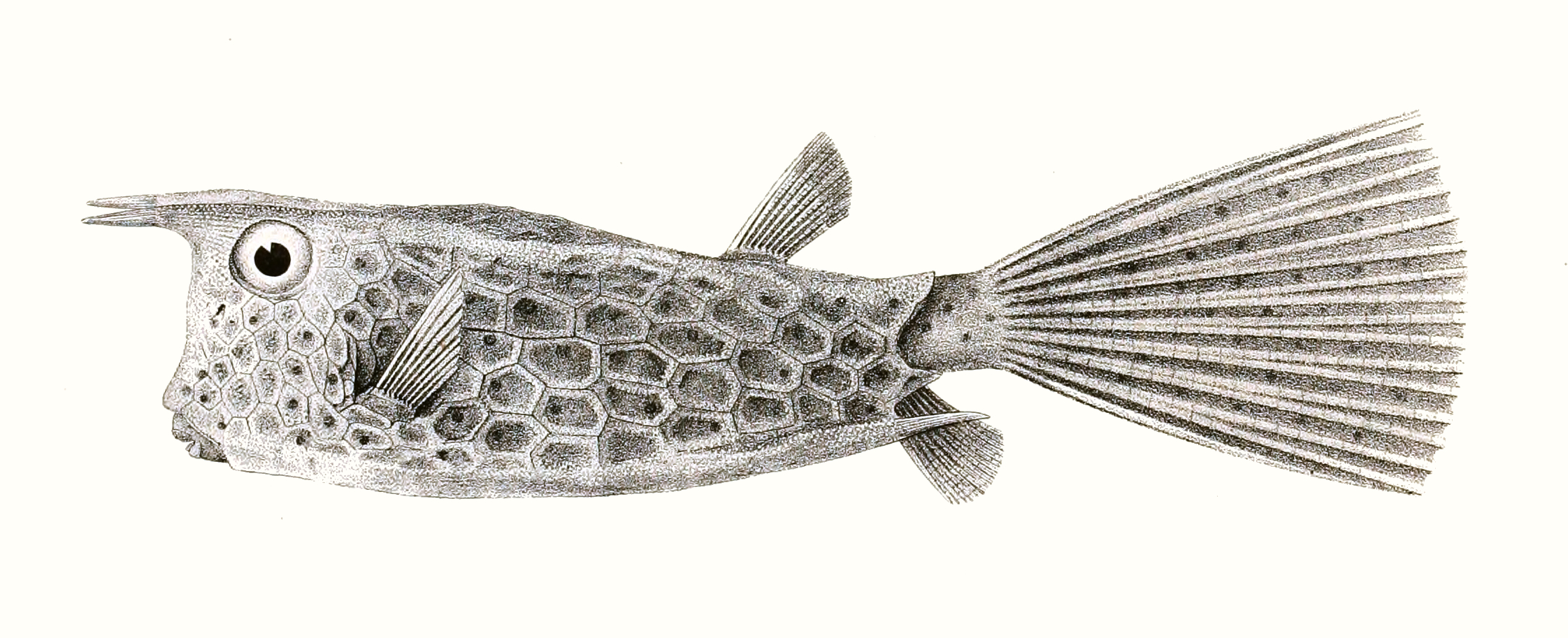 Lactoria cornuta syn. Ostracion cornutusThe species names / identity need verification - original names from plate are included here. The original plates showed the fishes facing right and have been flipped here. Ostracion cornutus